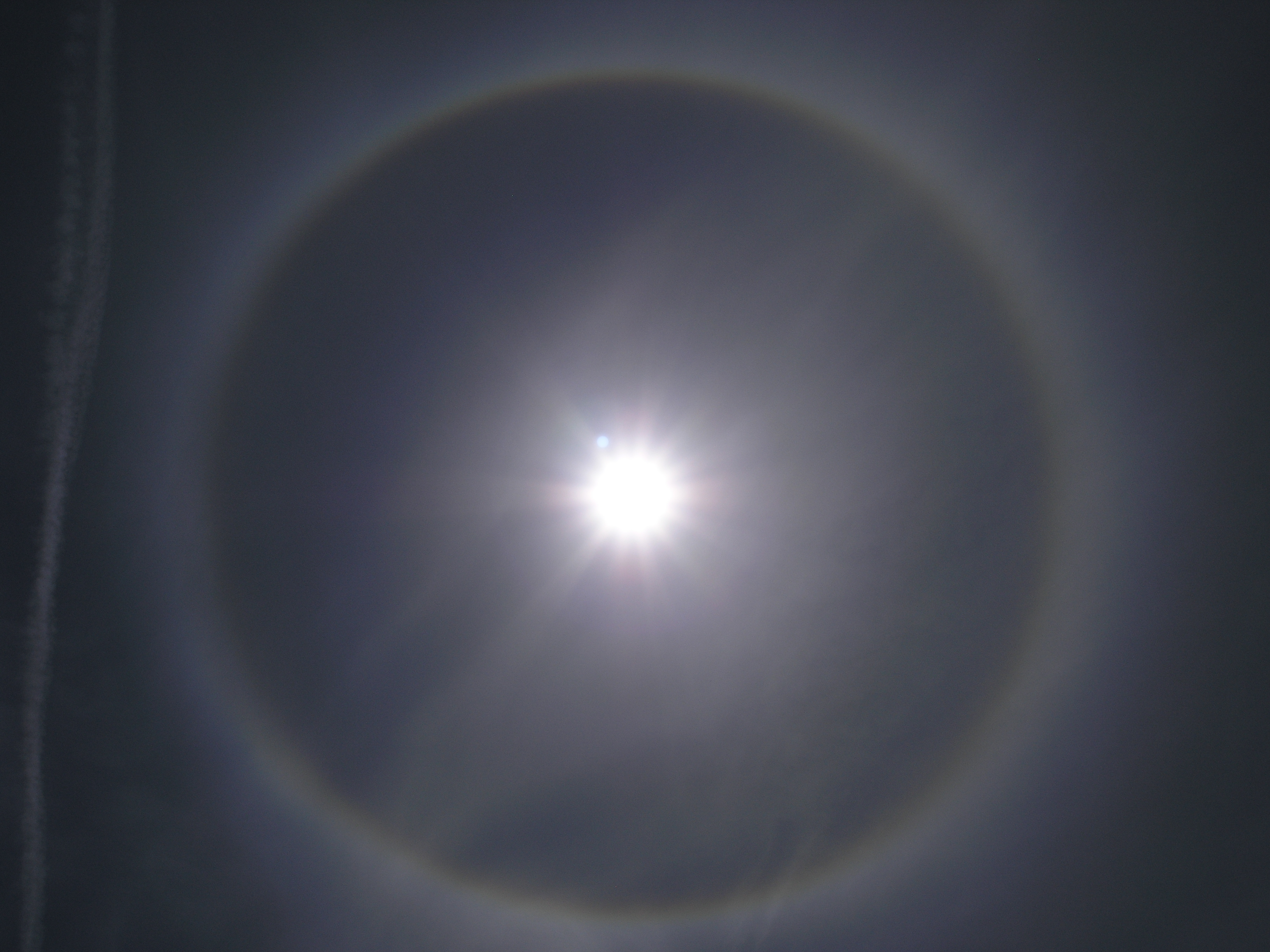 Sun 22° Halo, Portland, Oregon.